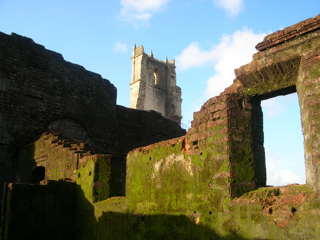 Photo by:nilankar,Licensed under Creative Commons.